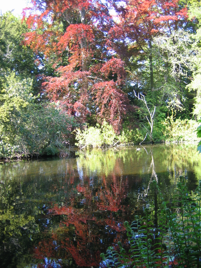 Smeaton Lake, East Lothian, Scotland